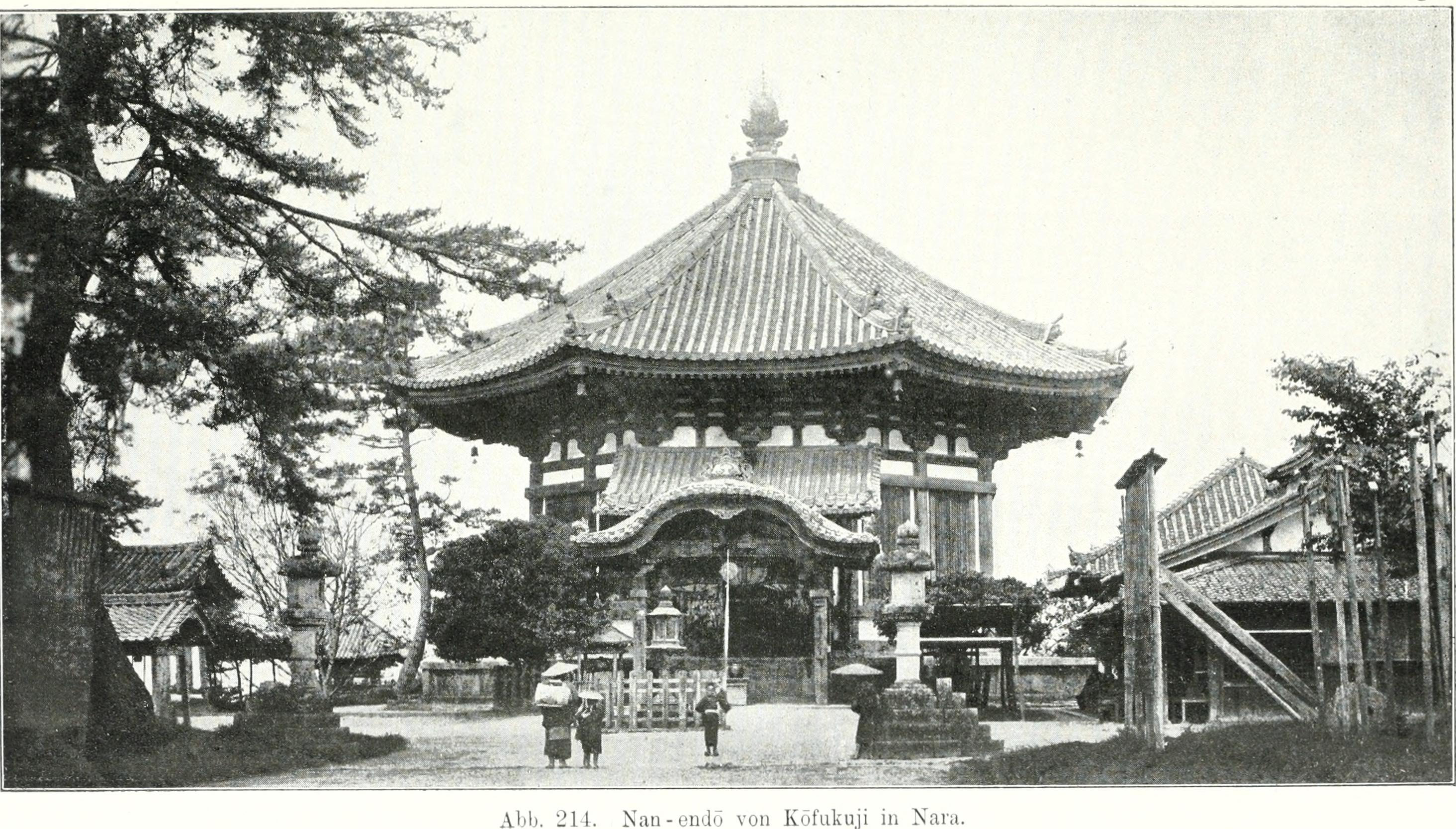 Title: Die Architektur der Kultbauten Japans Year: 1907 (1900s) Authors: Baltzer, Franz, 1857- Subjects: Temples Publisher: Berlin, Wilhelm Ernst Text Appearing Before Image: nach rückwärts verlängert und überdeckt auch die Seiten-schiffe; sie zeigt im Querschnitt ein regelmäßiges Sechseck.Die Decke des inneren Achtecks, vgl. Abb. 212, S. 173, zeigtauf Holz gemalt, und zum Teil besonders aufgelegt, eine mitStrahlen versehene achtblättrige Eosette; im übrigen hat dieDecke die üblichen kleinen durch gekreuzte Leisten gebildetenGevierte, in den Leisten und Füllungen durch Malerei reichverziert. Wie die Abbildungen erkennen lassen, ist dasKraggebälk über und zwischen den Pfosten einfach imdwuchtig in seinen A^erhältnissen; die Wände sind geputzt undweiß getüncht, das Dach ist mit gebrannten Pfannen derHongawara-Form gedeckt; besonders eindrucksvoll und schönist die Dachbekrönung aus Bronze in der früher beschriebenenForm des Taubeckens mit Blattkelch, Edelstein und Strahlen-kranz. An den inneren Friesfeldern der achteckigen Um-fassungswand sind über dem wagerechten Gebälk zu beidenSeiten der kurzen Drempelpfosten Malereien in der Form des Text Appearing After Image: Baltzor, Kultbauton. 12 179 Froschbeins, Kaerumata, angebracht, das sich hier als einegeschickte Ausfüllung der Ecken durch Rankenwerk darstellt.Ein Beispiel aus der Tokugawa-Zeit ist das Hakka-kudo von Shiba in Tokio, welches das Grab des zweiten Toku-gawasclioguns Hidetada, gestorben 1G32, enthält und vondessen Nachfolger Yemitsu auf einer Anhöhe im Südwestendes Shibaparks errichtet wurde. Der Bau zeichnet sich durch